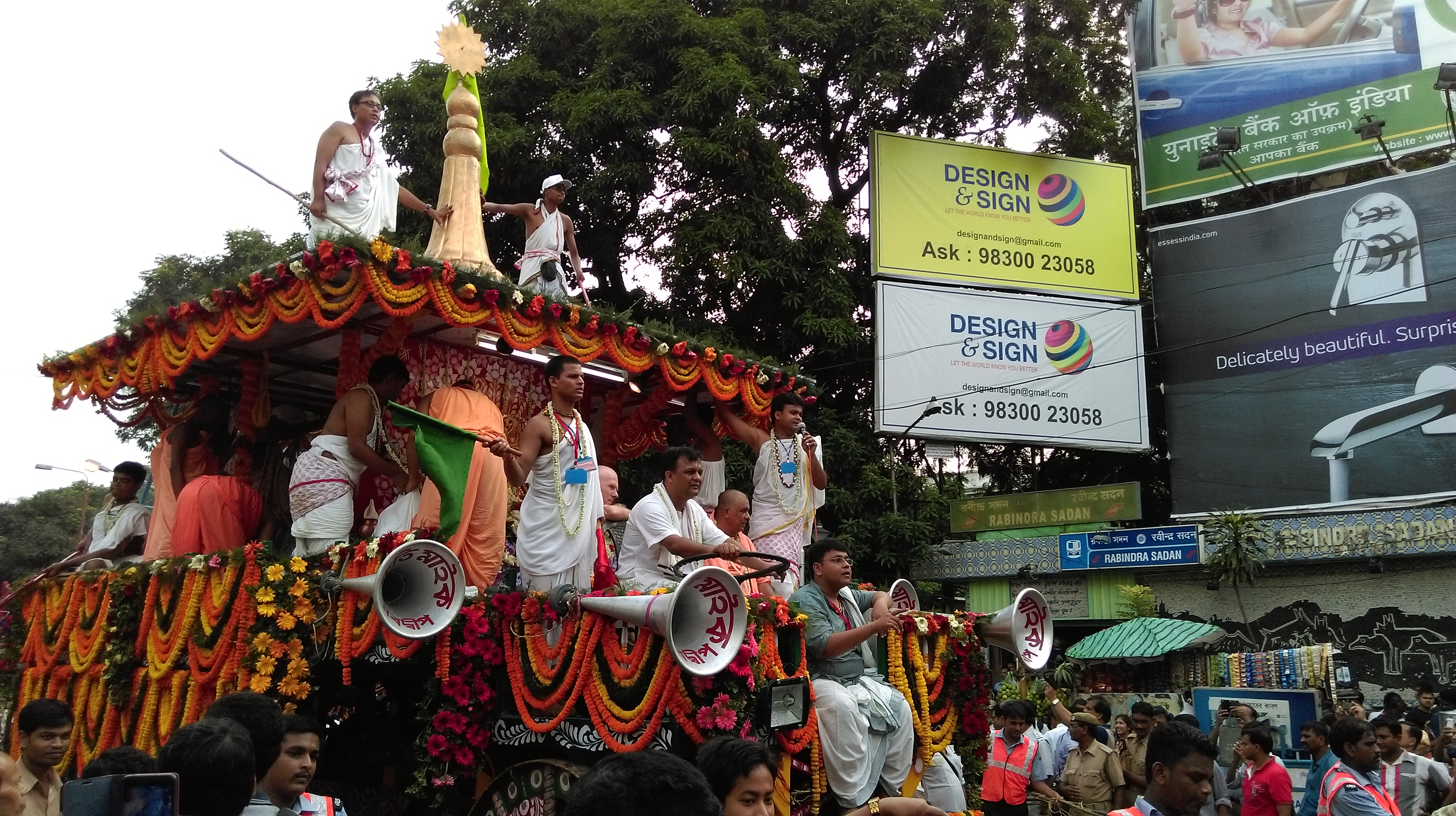 ISCON Rath Yatra, Kolkata 2015